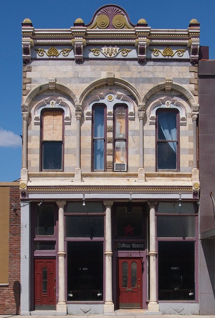 Timothy J. McCarthy Building, Faribault, Minnesota, USA. Viewed from the south, minor correction to maintain rectilinearity.